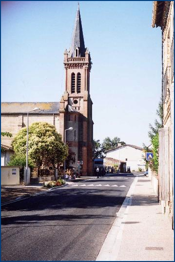 church